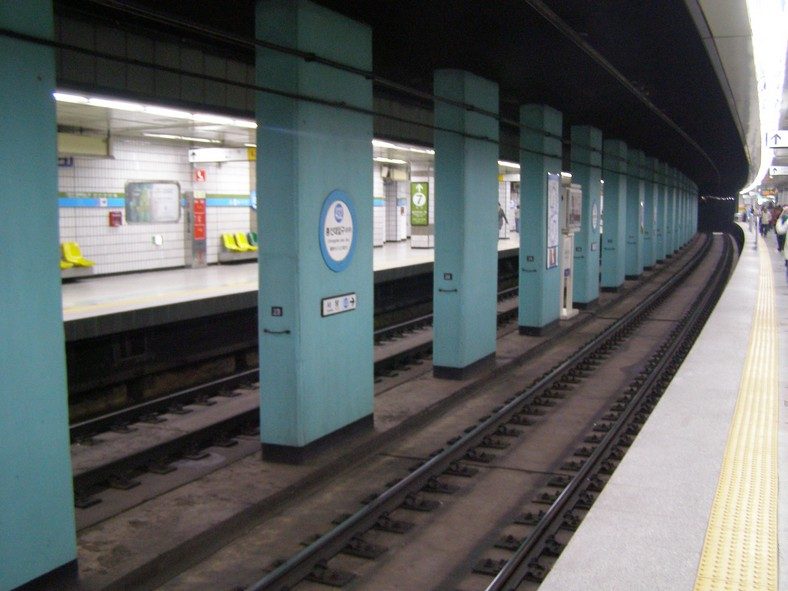 Isu Station